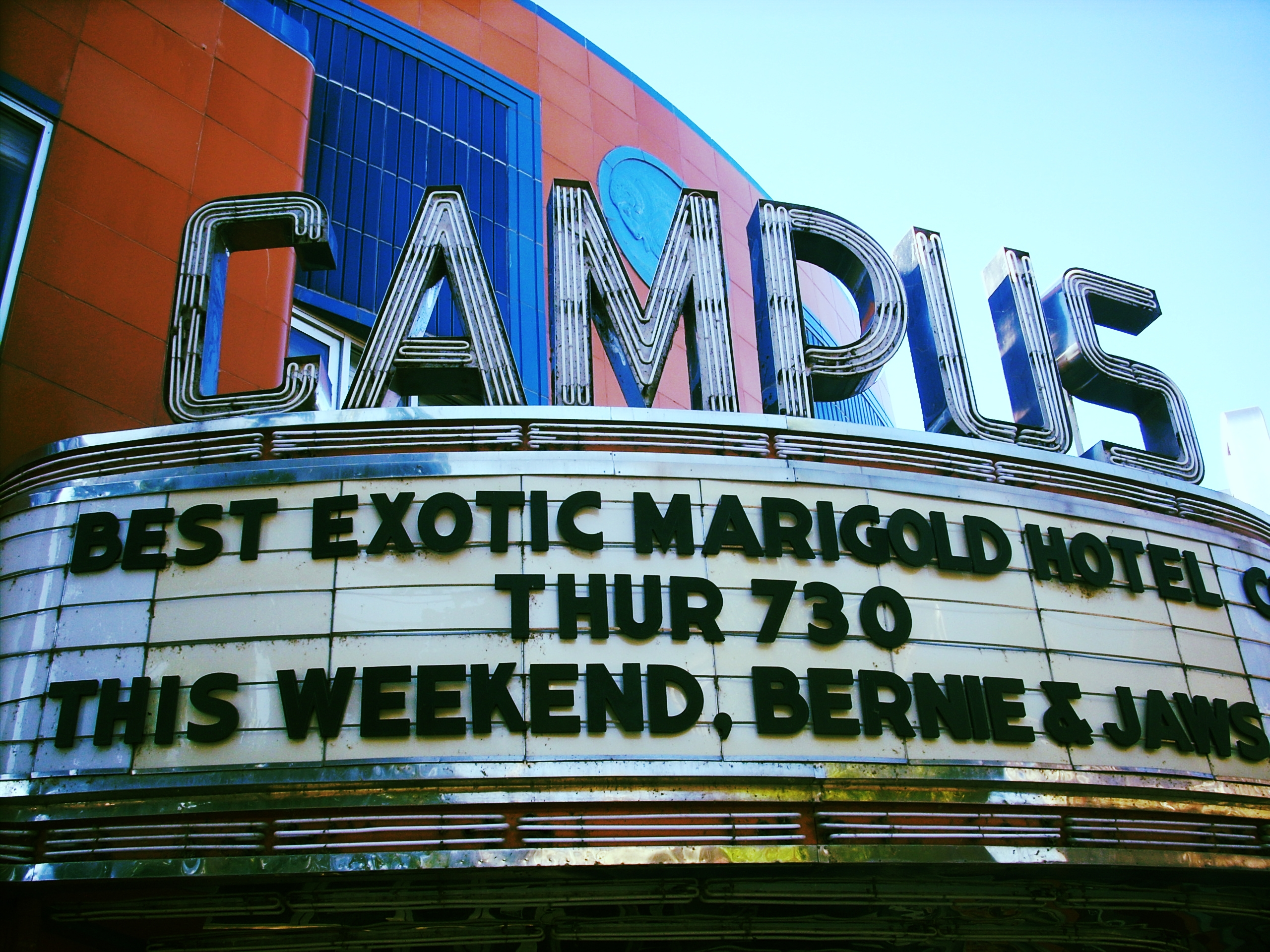 The Campus Theater on Market Street in Lewisburg, Union County, Pennsylvania. The theater is now owned by Bucknell University. Note the orange and blue colors and the Bison logo above the marquee.